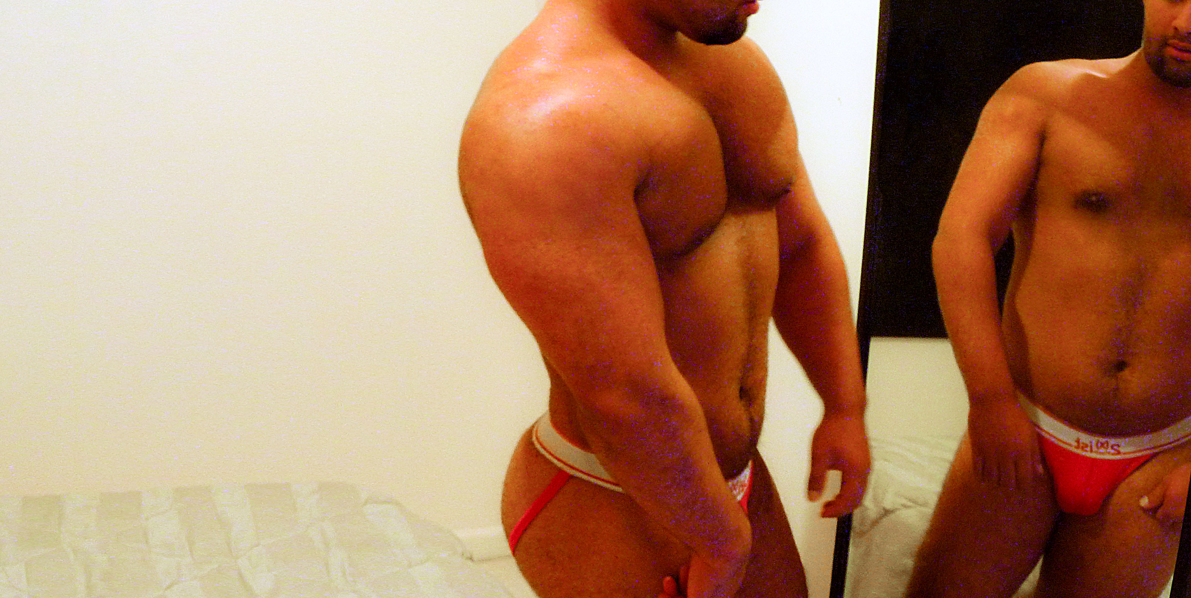 Originally uploaded here: Inspired by David Kavaler's excellent series called "Secrets" and a question from a reader about my body dysmorphia. I tried re-creating his dramatic lighting (it really makes the "secrets" feel like secrets) but was horribly unsuccessful. Really should have considered a lighting challenge instead of a homage/recreation challenge... My "secret" might not be a surprise to any of my readers, but with a little Photoshop, I can show you how I see myself in the mirror: Skinny, underdeveloped, small, yet fat in places. Completely undesirable. It probably sounds silly, but I've had breakdowns over how small I feel. My BDD isn't as bad as it used to be. It helps that "I know" I'm not skinny and am constantly trying to affirm how happy I am with my progress. It's still a problem, and sometimes it gets the best of me. That's my secret.